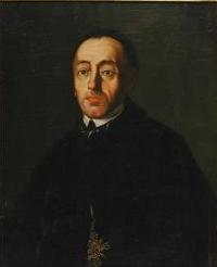 Portrait of abbot Bedřich Grundmann, according to